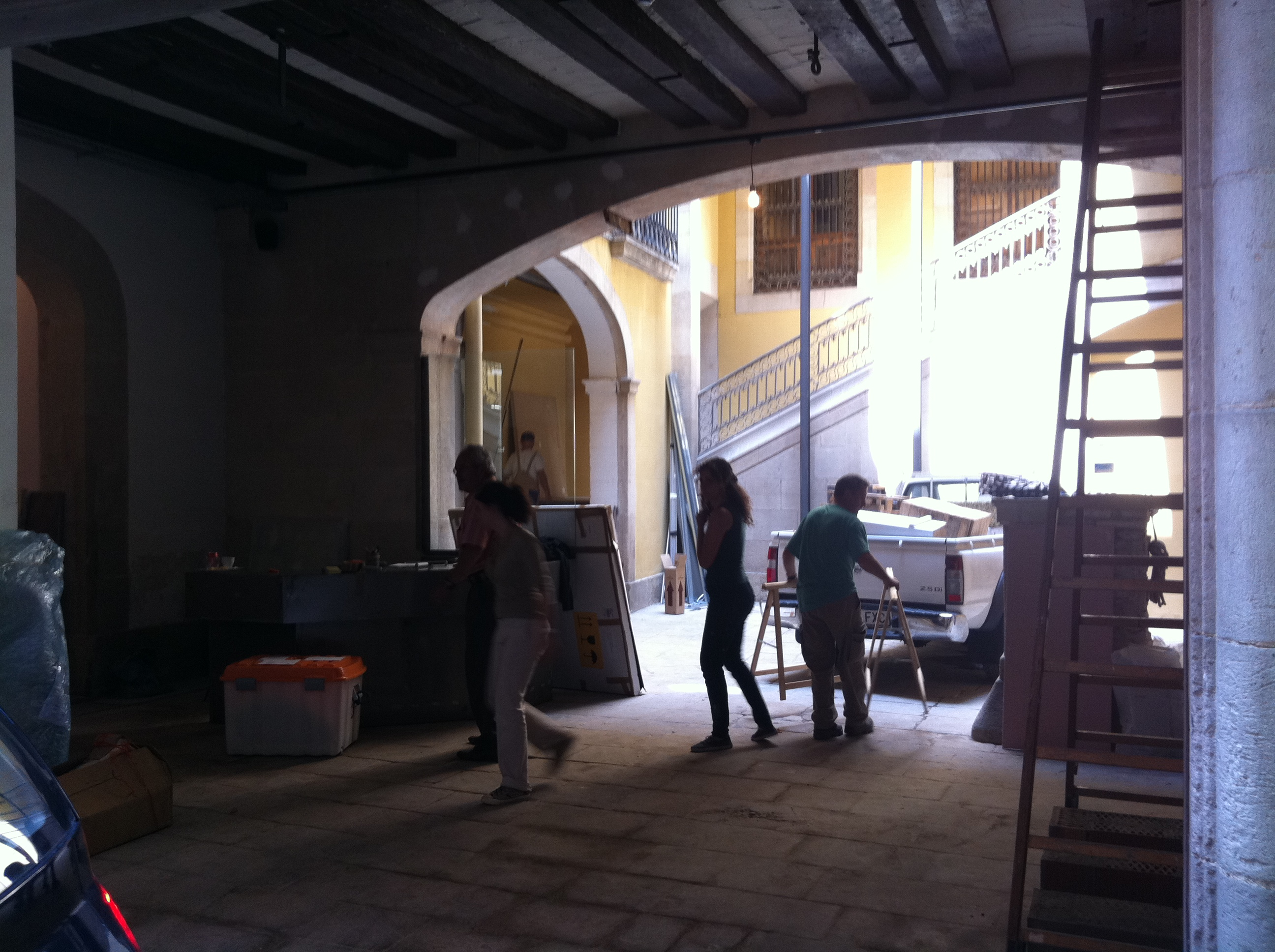 Preparation of the Museum